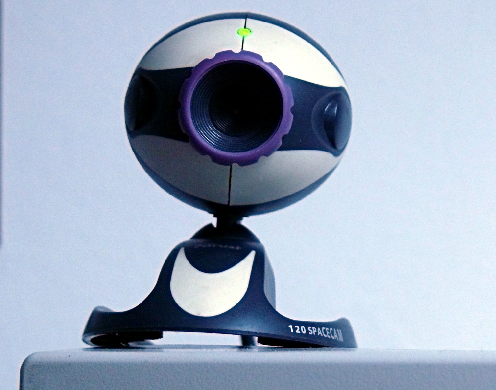 A Trust 120 SpaceCam webcam